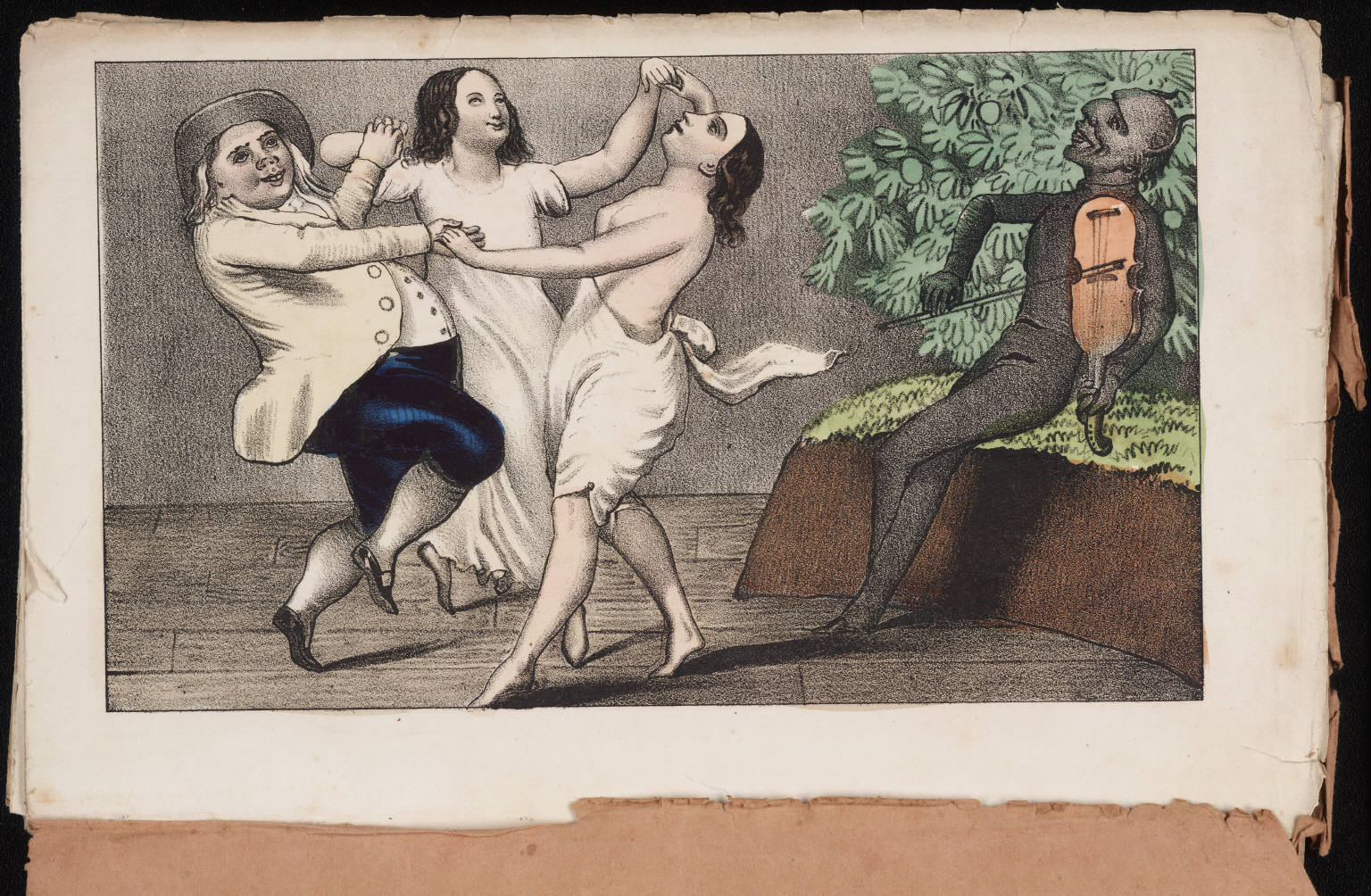 "A Mormon and his wives dancing to the devil's tune," illustration to the book "Startling disclosures of the wonderful ceremonies of the Mormon spiritual-wife system: being the celebrated 'endowment,' as it is acted by upwards of fifty thousand men and women in secret, in the Nauvoo, in 1846, and said to have been revealed from God." Lithograph. Published in 1850 by Blake & Jackson, New York, and written by McGee Van Dusen and Maria Van Dusen. Courtesy of the Yale Collection of Western Americana, Beinecke Rare Book and Manuscript Library, Yale University, New Haven, Connecticut. Illustration shows a corpulent and complacent husband, drawn with something of a pig's face, dancing with his two scantily-clad wives, as a black devil plays the violin.